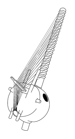 kora Drawer:Eurovich of the Comacontrol